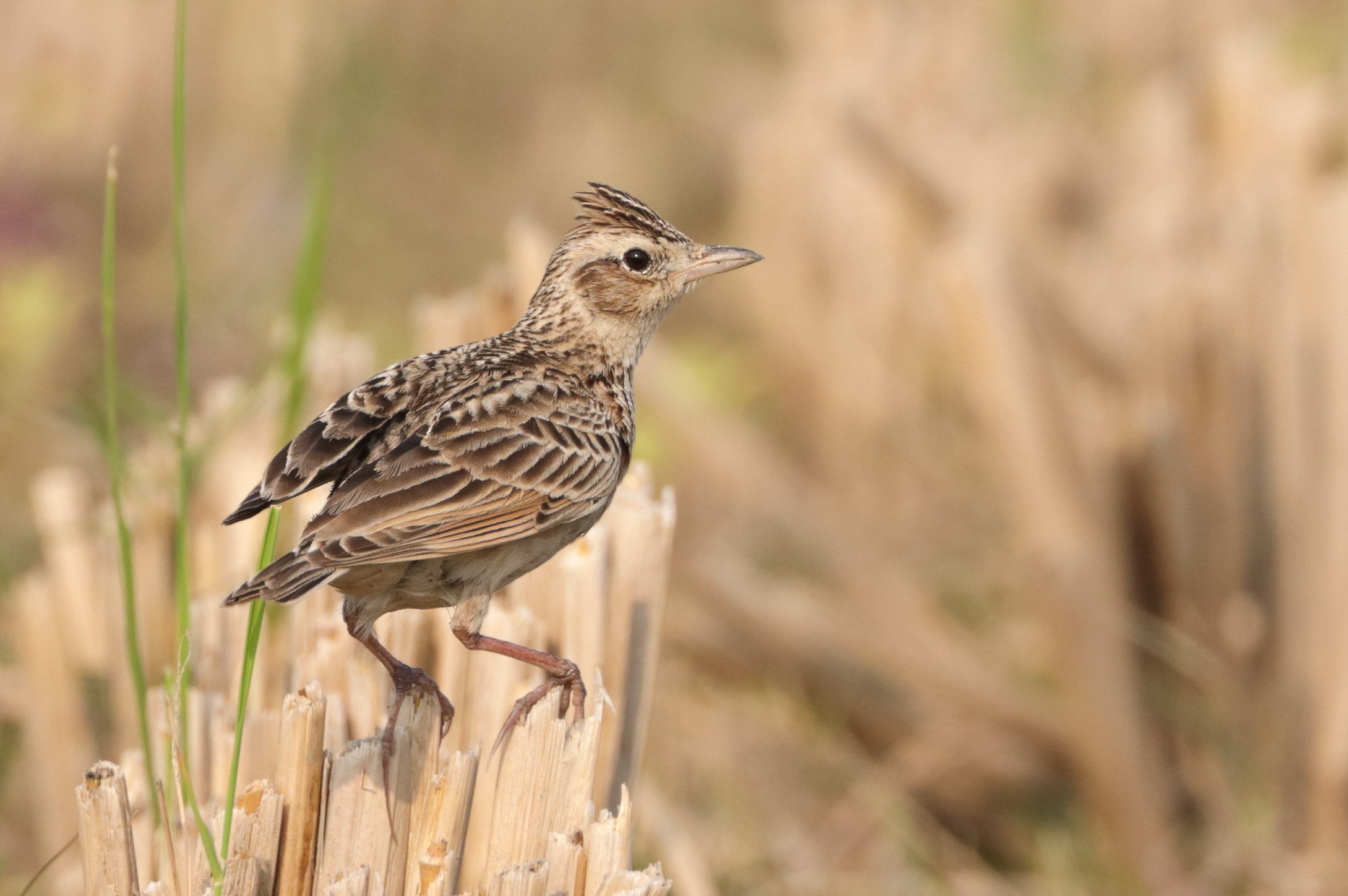 The Oriental skylark, also known as the small skylark, is a species of skylark found in the southern, central and eastern Palearctic. Like other skylarks, it is found in open grassland where it feeds on seeds and insects.